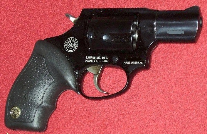 Taurus Model 85 Revolver